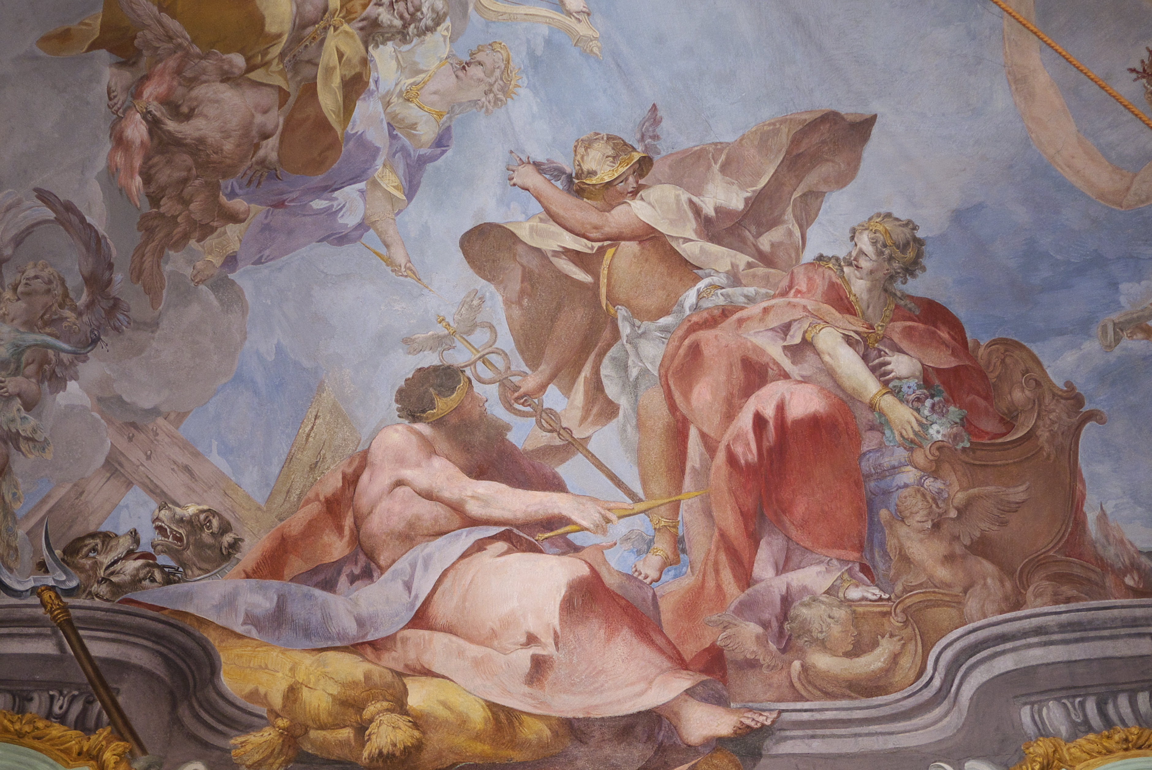 Detail from Convito per le nozze di Amore e Psiche (The Wedding Feast of Cupid & Psyche). Galleria Nazionale di Palazzo Spinola, Genova